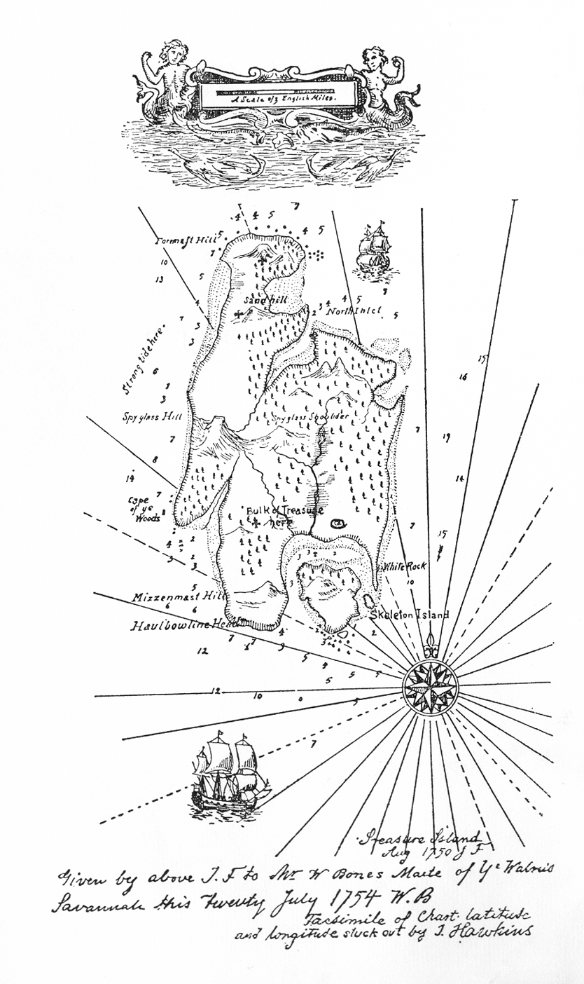 Map of Treasure Island from Robert Louis Stevensons book Treasure Island